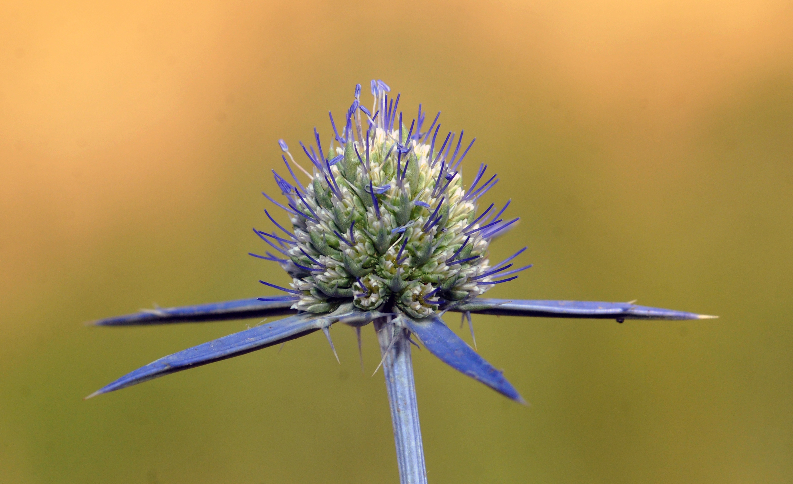 Eryngium bithynicum